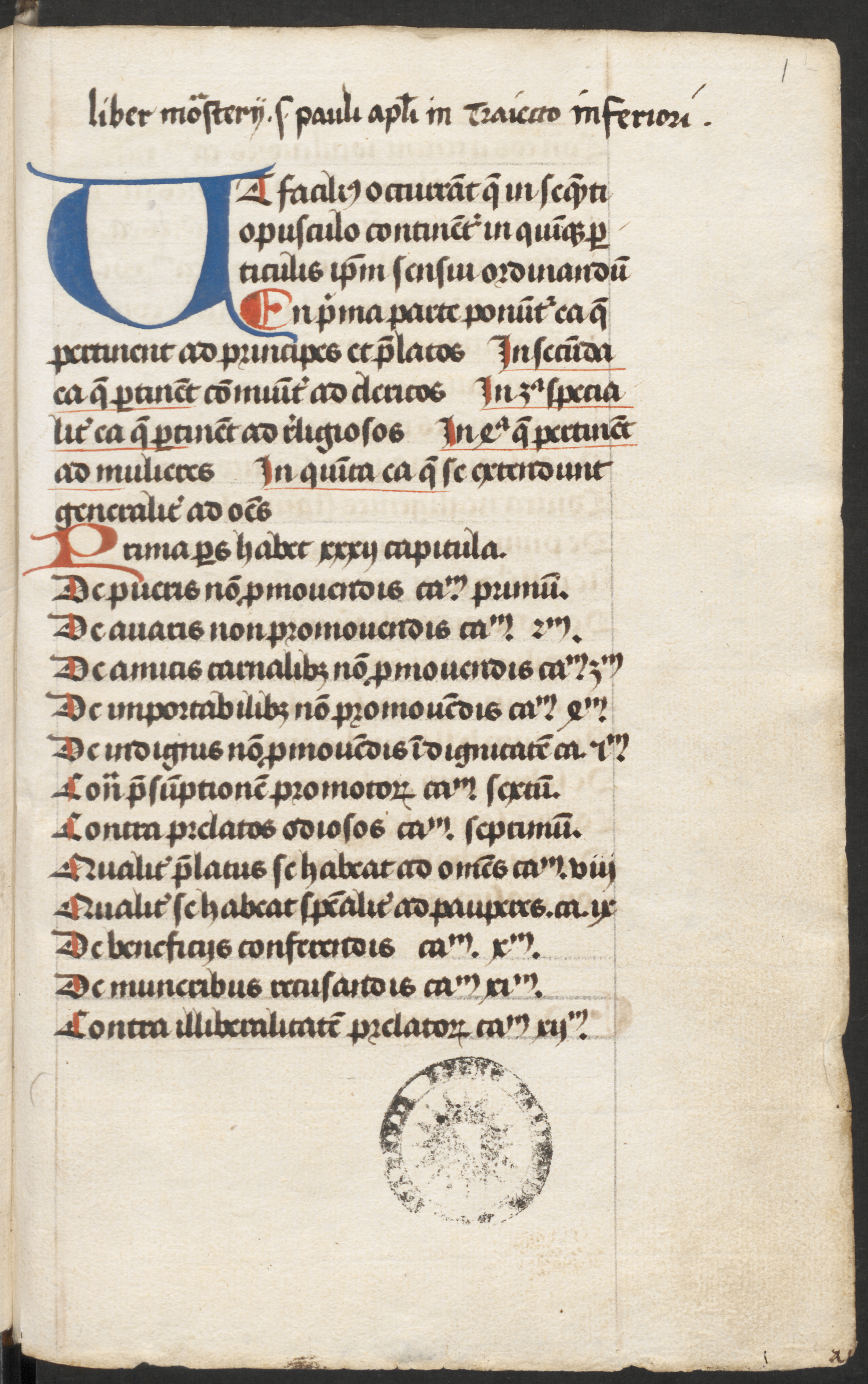 Ms.382, fol. 1r.